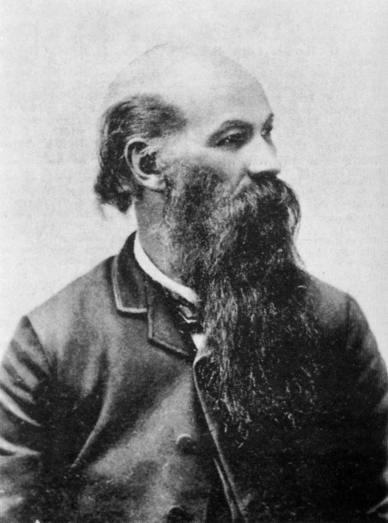 Photograph of African-American photographer, abolitionist, and businessman James Presley Ball (1825-1904).